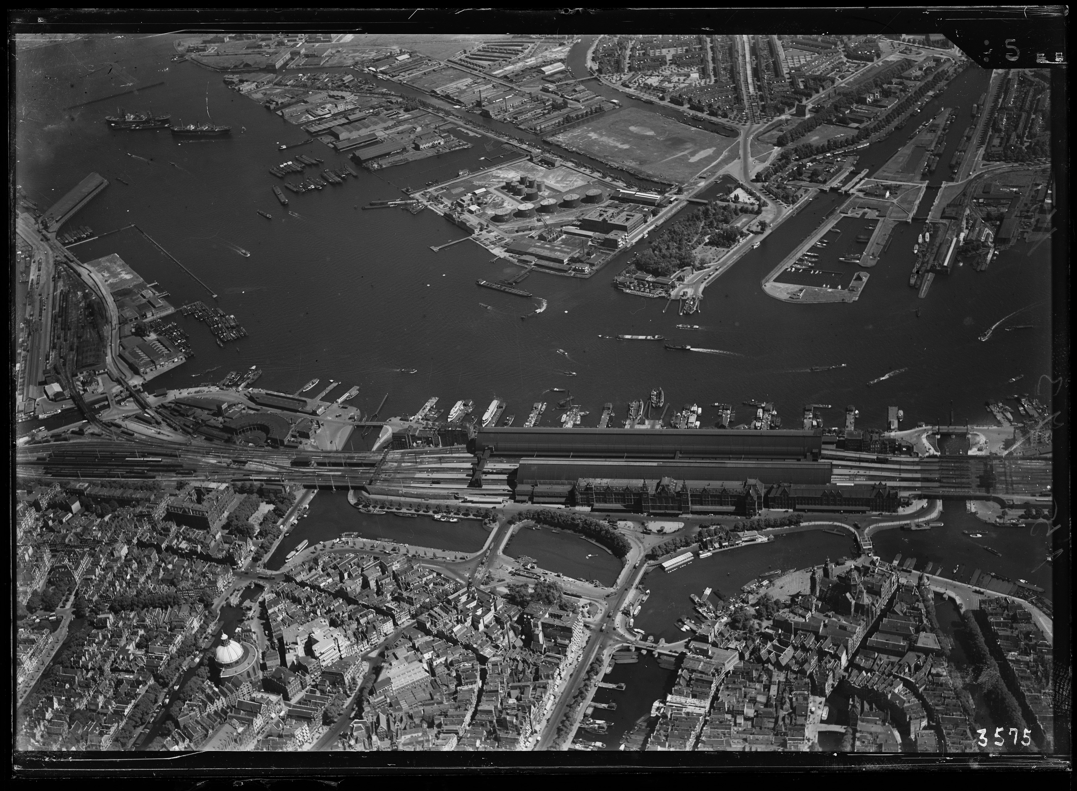 Aerial photograph of Amsterdam, The Netherlands. Amsterdam Central station. Noordhollandsch Kanaal. IJ.